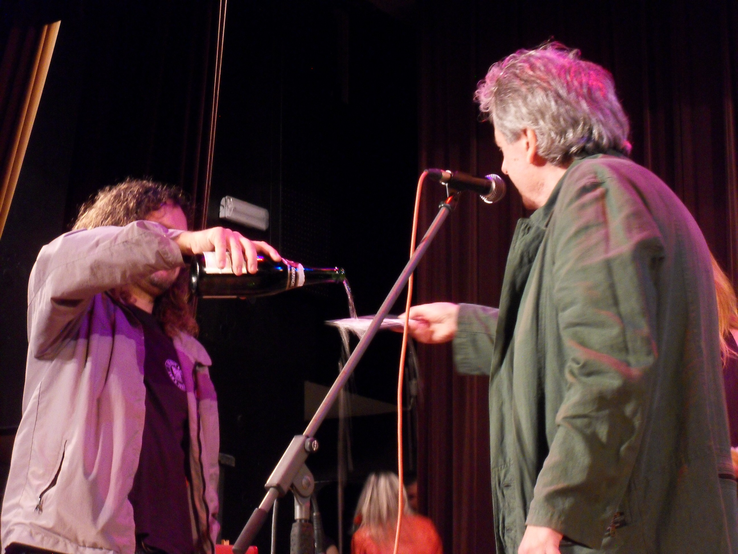 Baptism of Neopak album of czech guitarist Miloš Makovský, Brno, Czech Republic